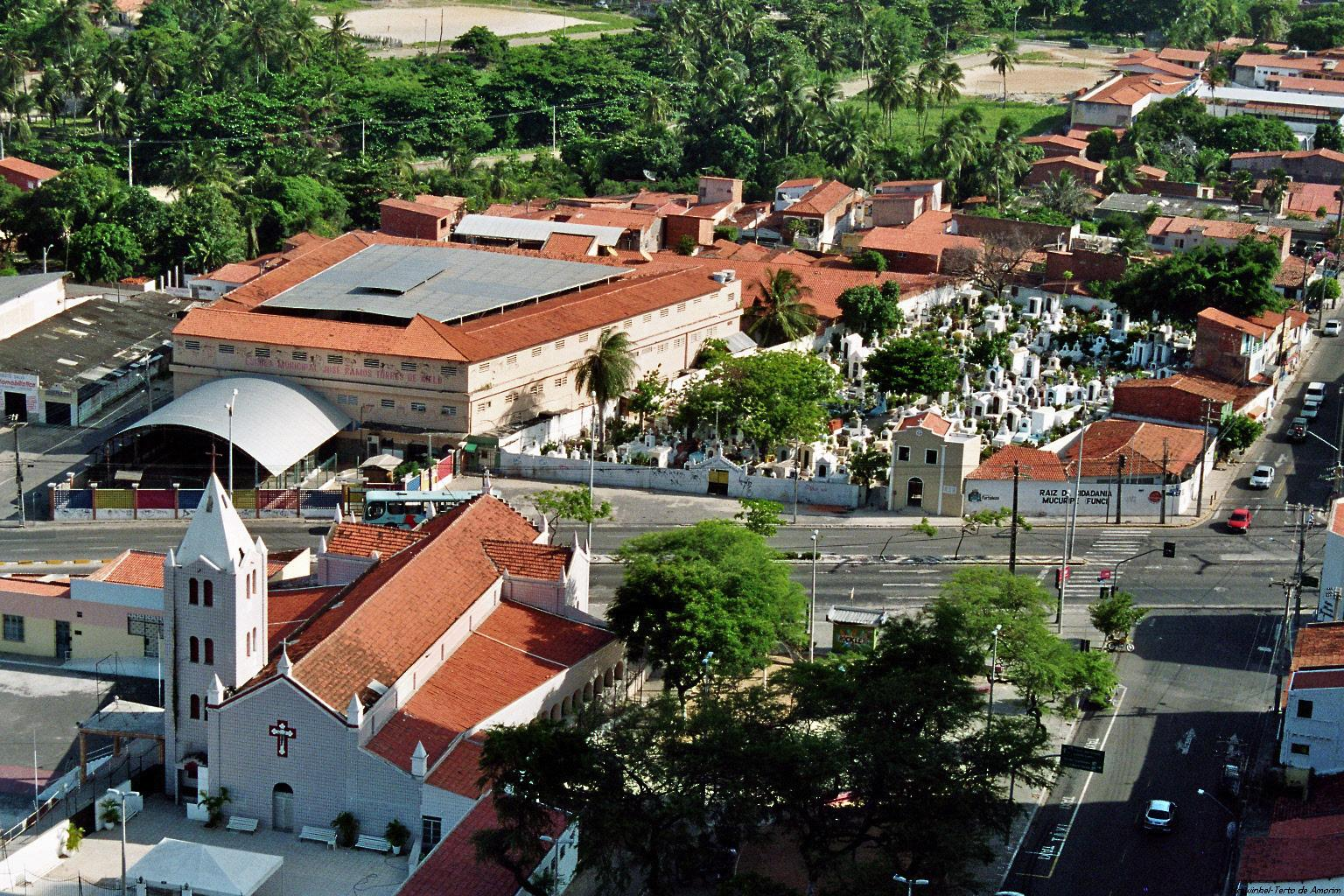 Mucuripe